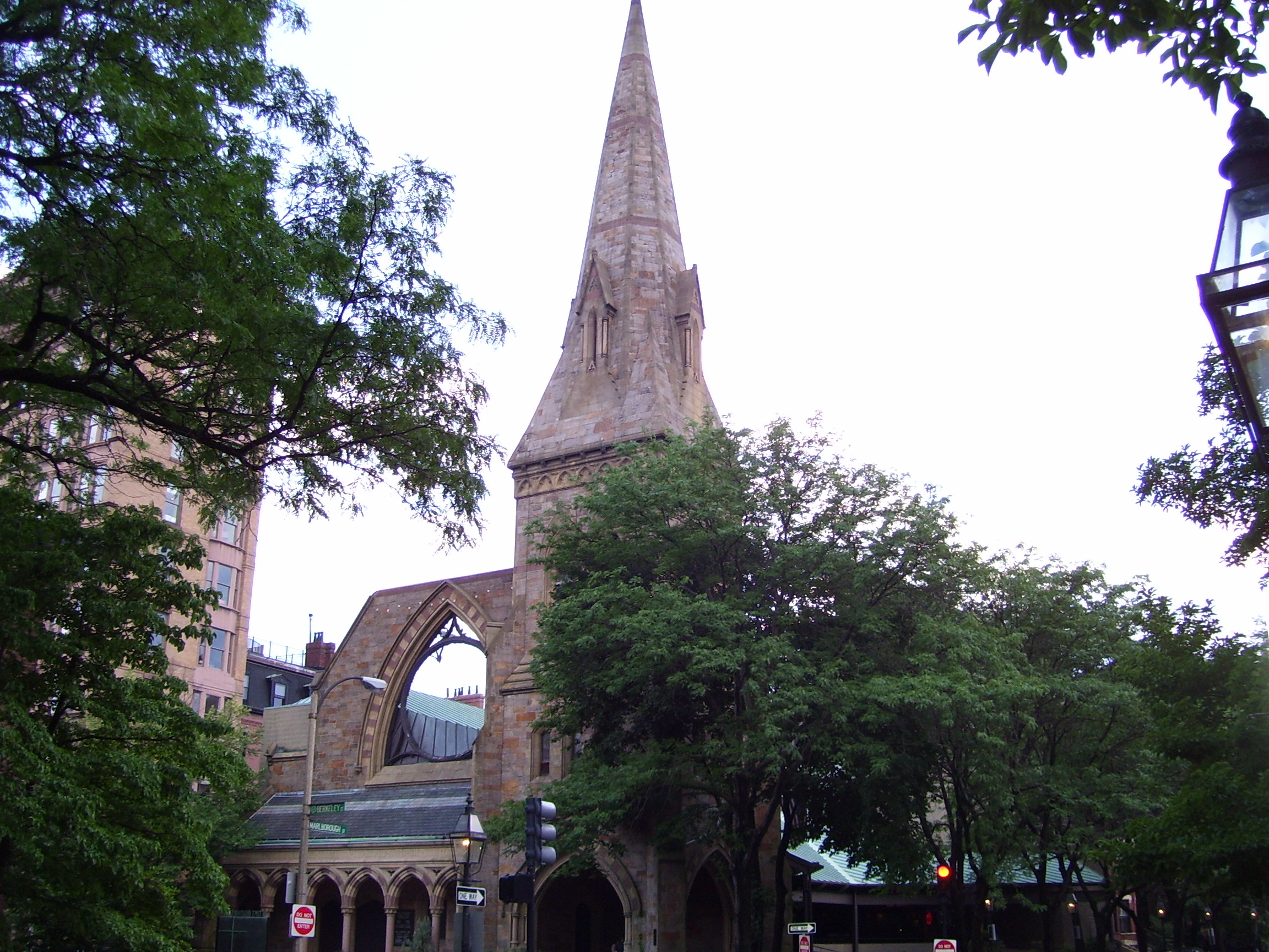 This is my 2008 photo of First Church in Boston, Massachusetts.